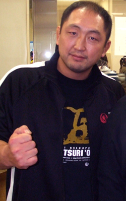 A photo I took of Shinjiro Otani at the ZERO1-MAX show "GENESIS 2008" on January 1st, 2008 in Tokyo's Korakuen Hall.